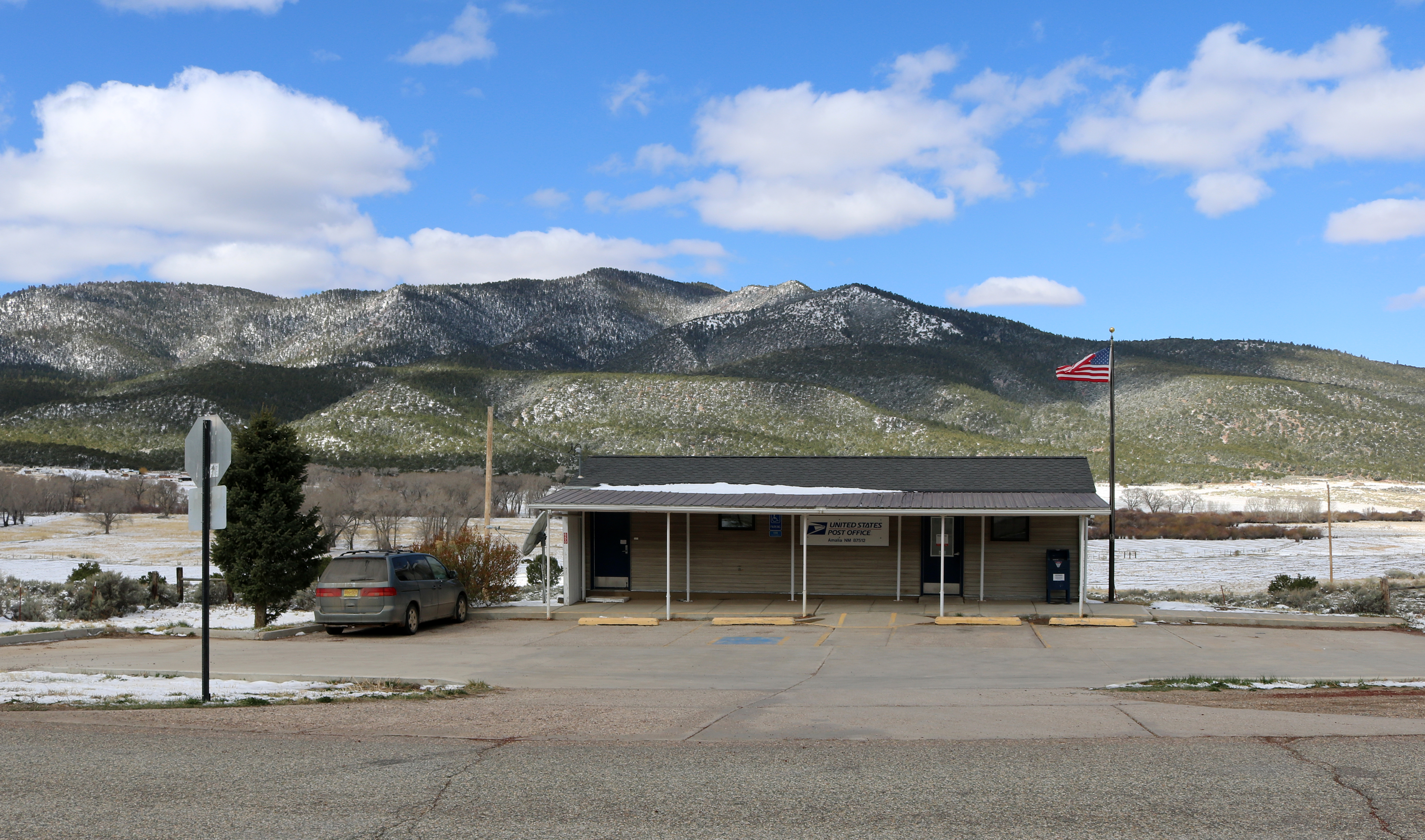 The post office in Amalia, New Mexico, located at 650 State Highway 196, Amalia, NM 87512.